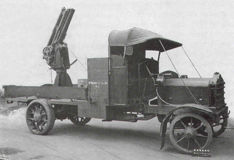 British 13 pounder 6 cwt anti-aircraft gun on Mk I mounting, on a Daimler Mk 3 lorry. The Mk I mounting's twin recuperators above the barrel are clearly visible.